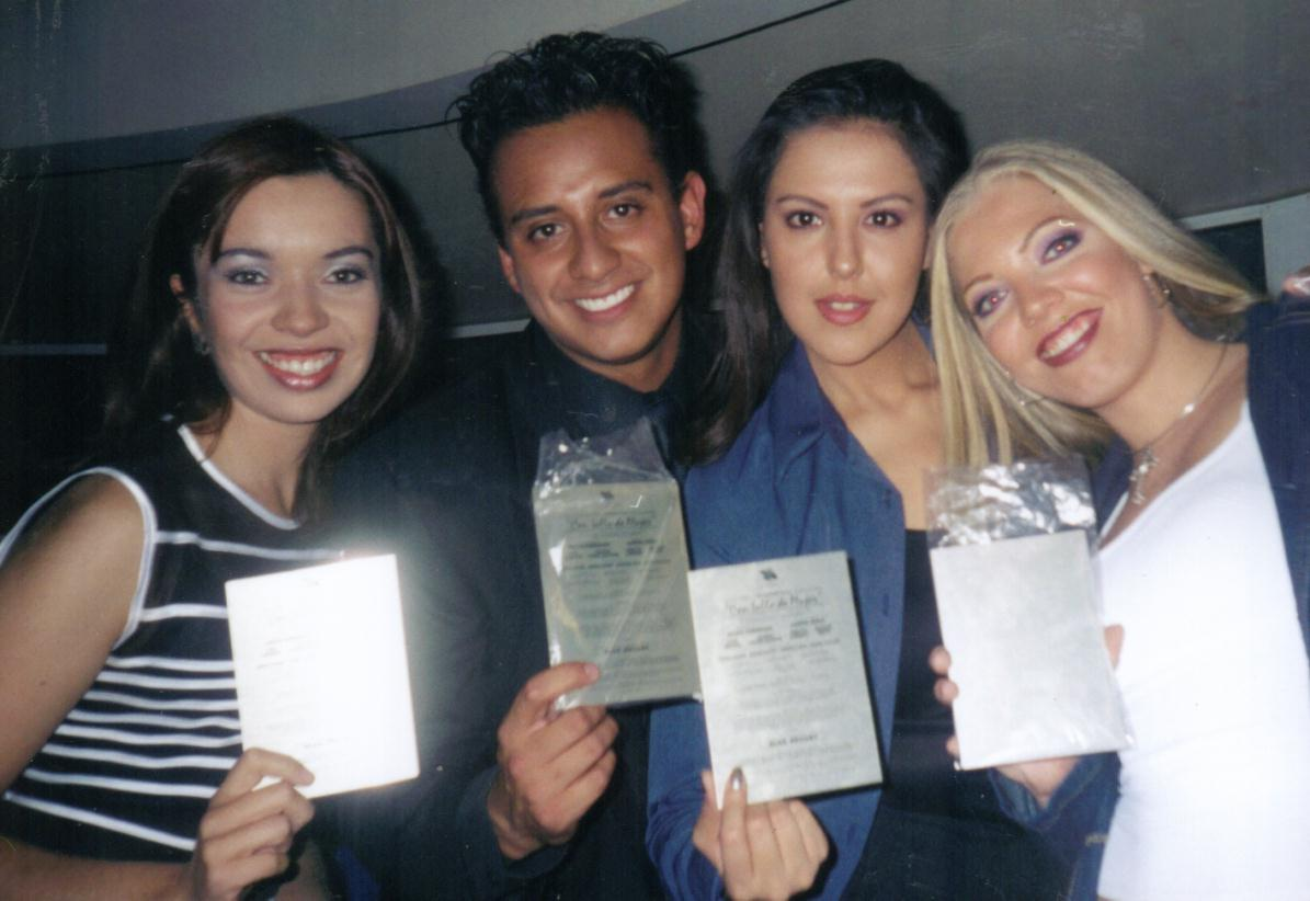 Elisa Reverter, Alejandro Fagoaga, Norma Oseguera, Paola Durante